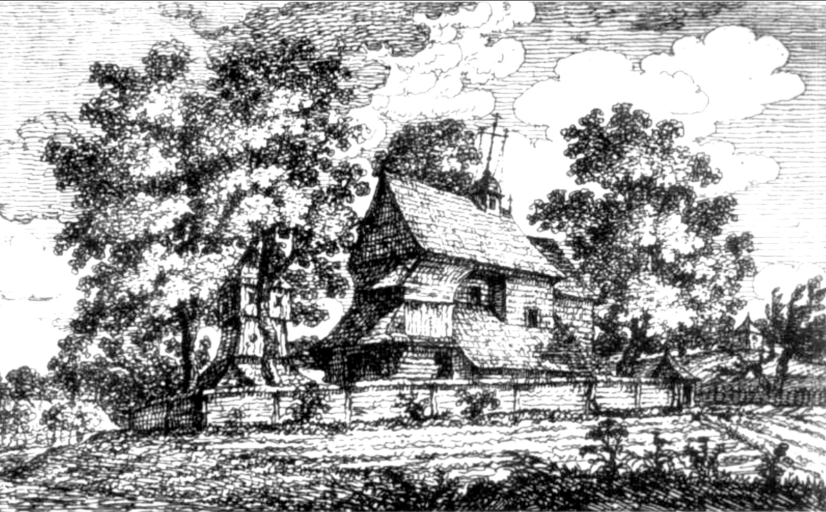 St. Nicholas Church in Butsiv, 1600 (picture from 1836)